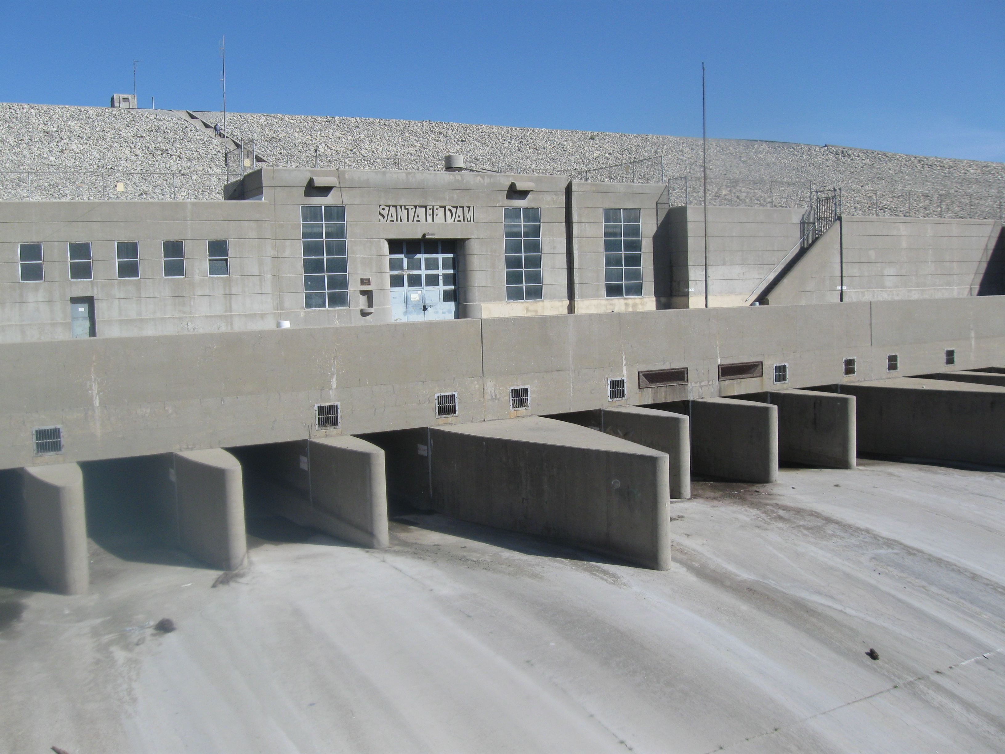 Left side of outlet from Santa Fe Dam